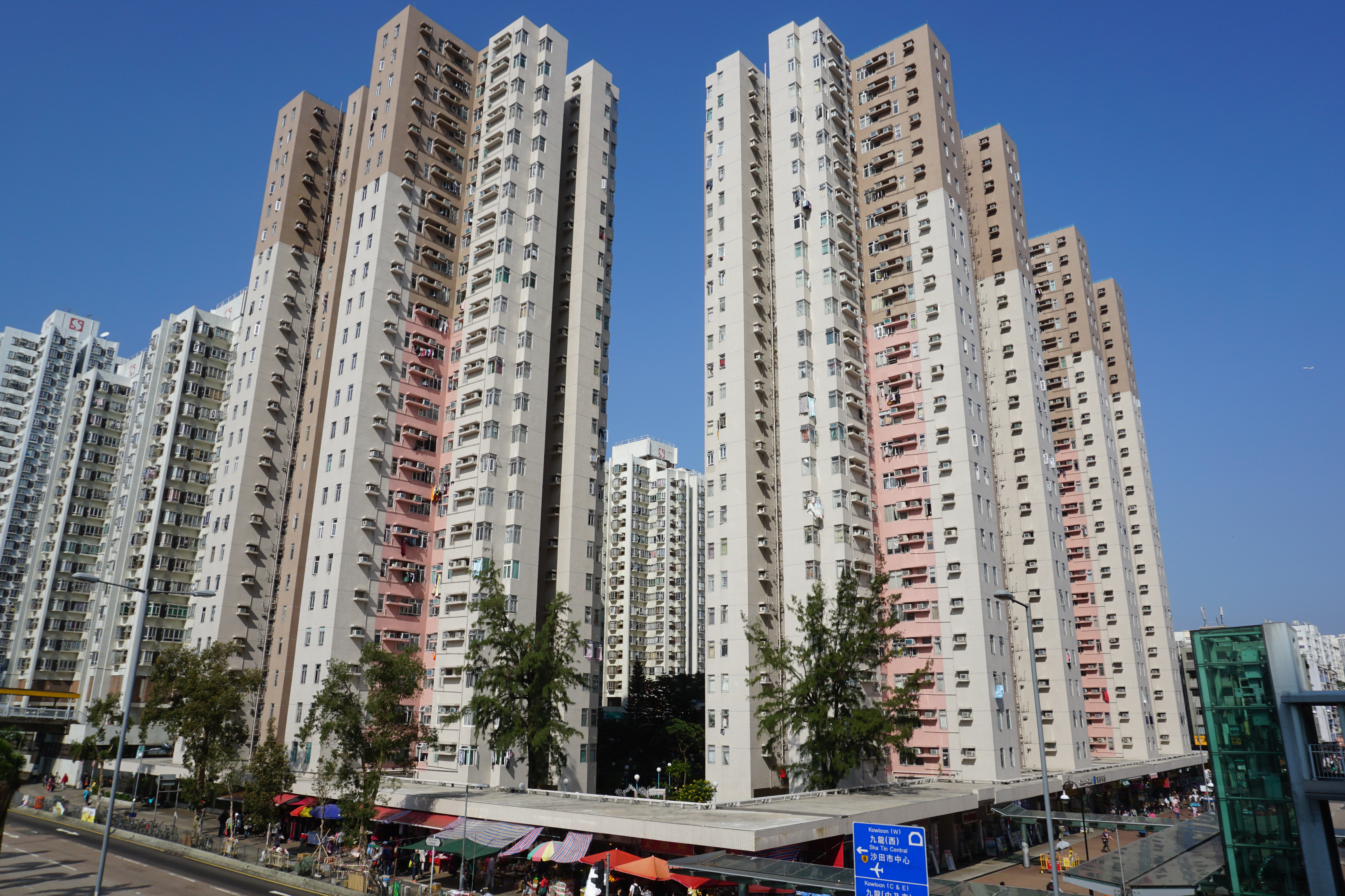 Grandway Garden in Tai Wai, Hong Kong.